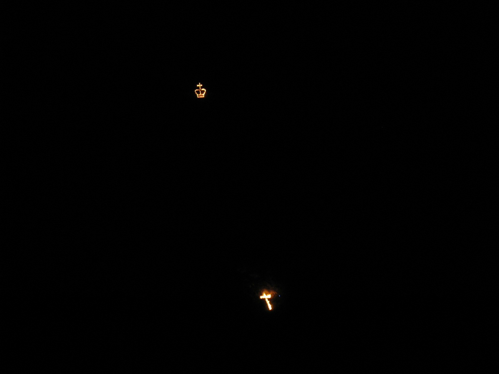 König-Ludwig-Feuer at the Mount Kofel near Oberammergau (Bavaria, Germany)